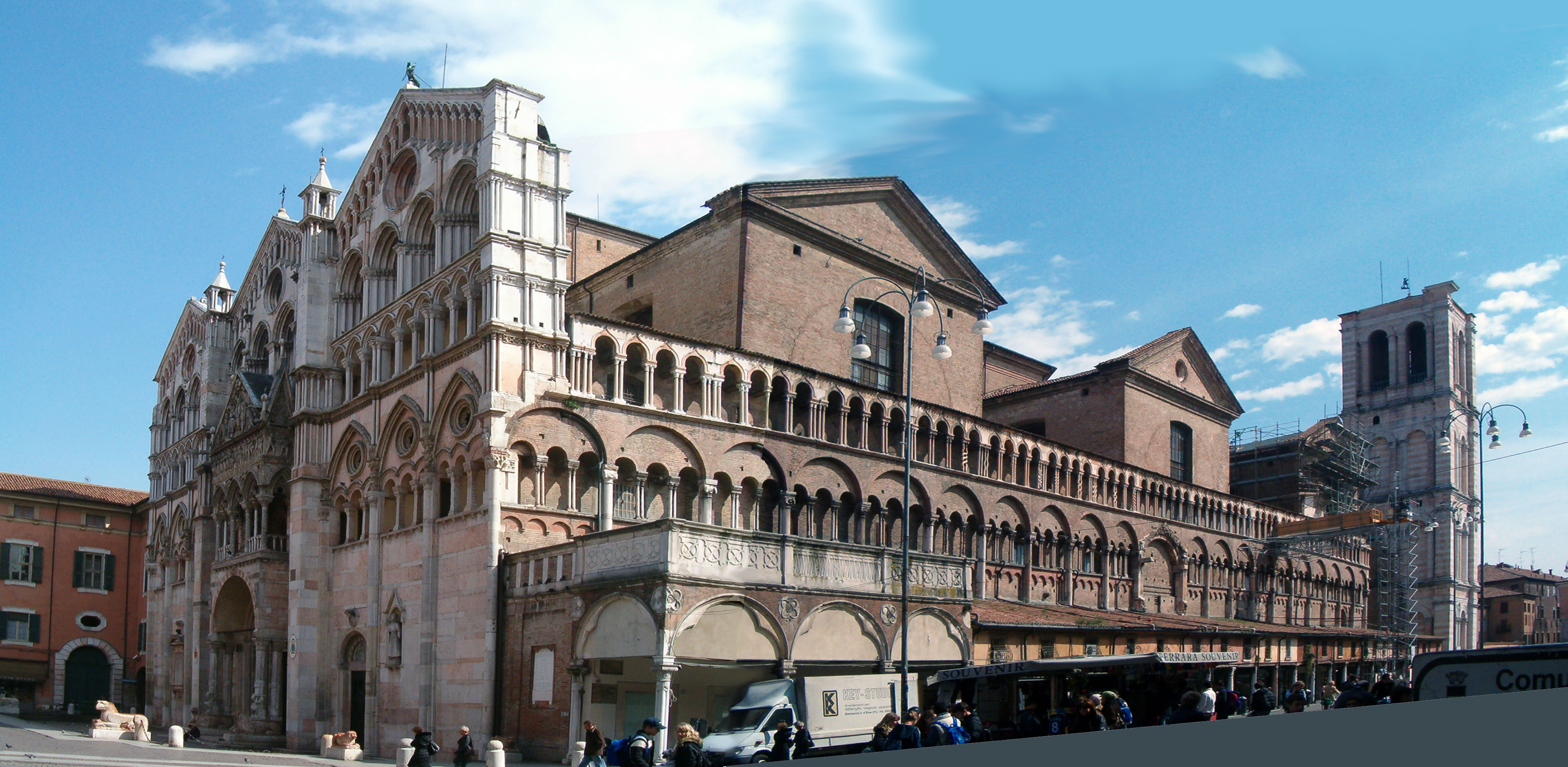 Cathedral of Ferrara, Italy (Duomo di Ferrara), panoramic view